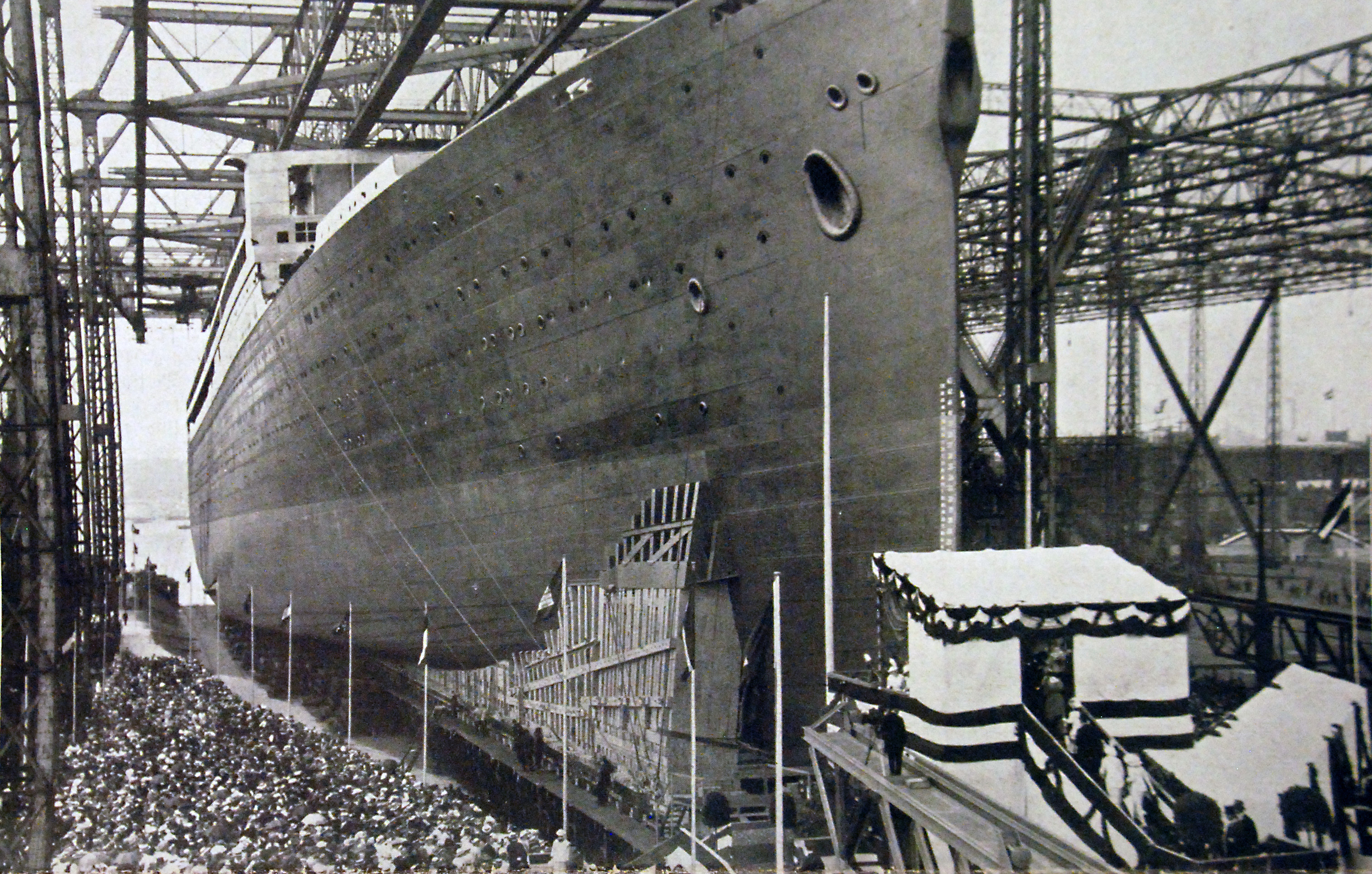 Lot 2771-5: Brochures for the Hamburg-American Line. German ocean liner Bismarck, the sister ship to SS Vaterland, Hamburg American Line. Being launched on June 20, 1914. Bismarck was turned over to Great Britain as compensation for the sinking of HMHS Britannic and served as RMS Majestic, later SS Majestic. Courtesy of the Library of Congress. (2016/07/08).